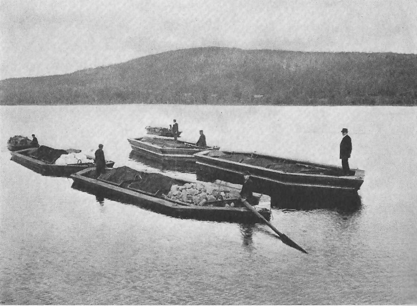 Transport of iron ore on barges from Långnäs enrichment plant to Hofors steelmill on lake Stor-Gösken.